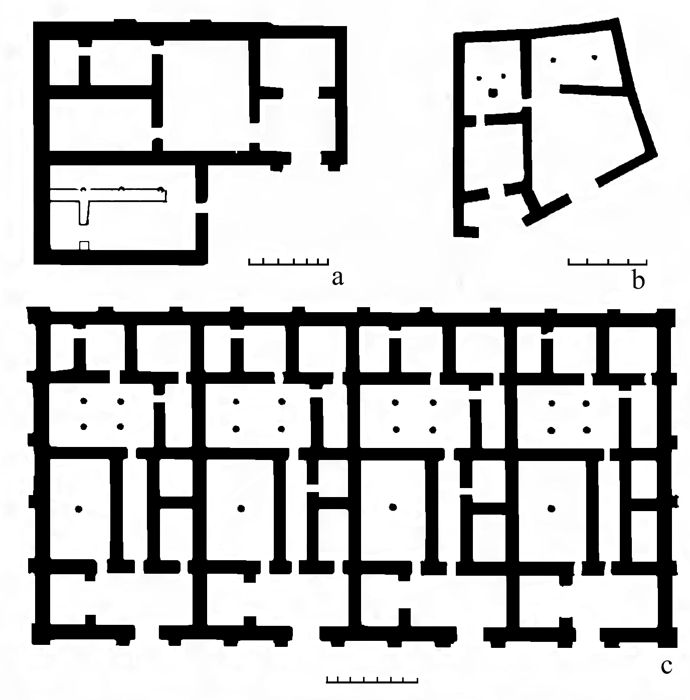 Teishebaini buildings plan. (a, b - single building, c - complex building)